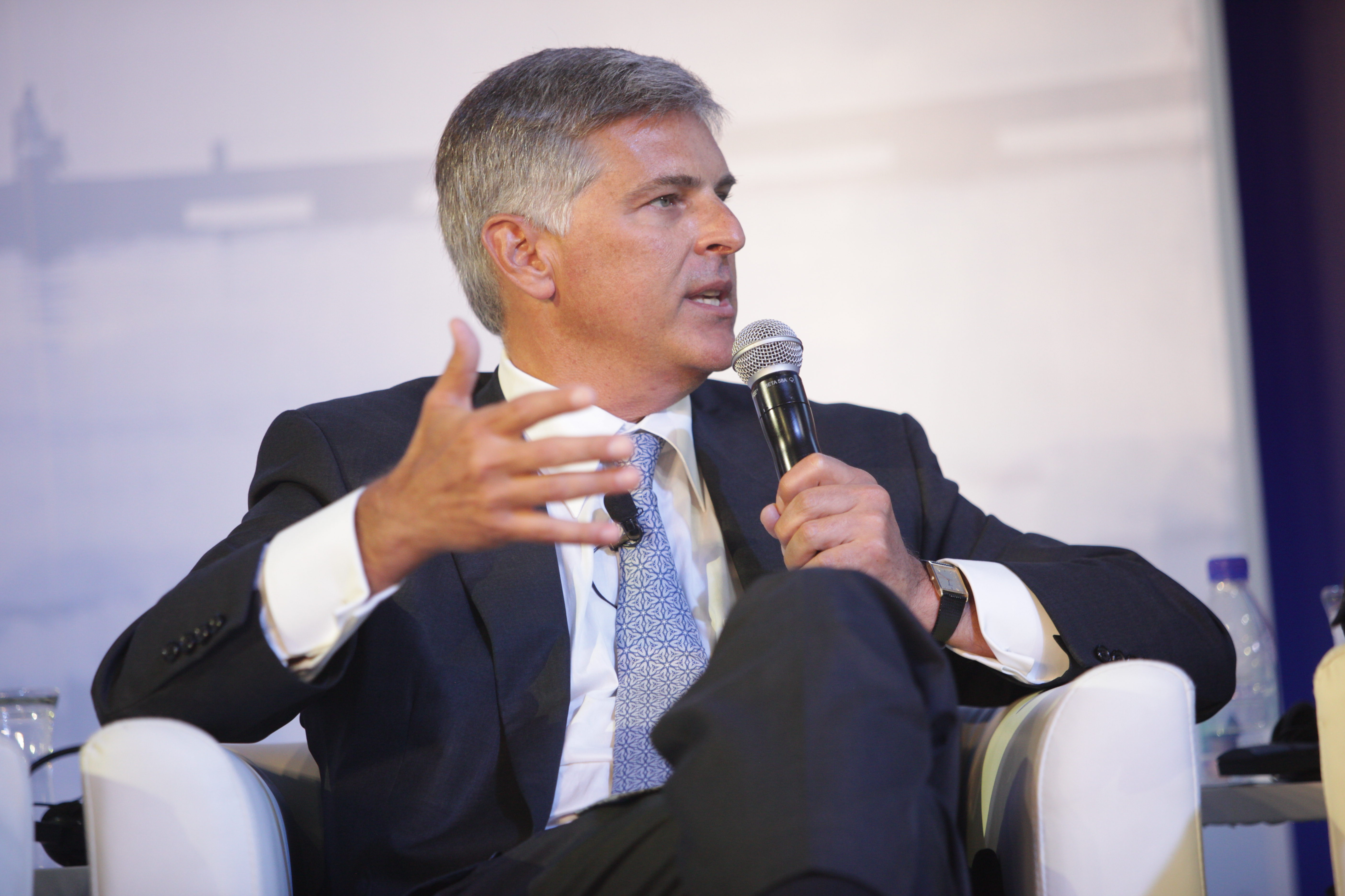 Christopher J Nassetta, President & CEO, Hilton Worldwide World Travel & Tourism Council Flickr images